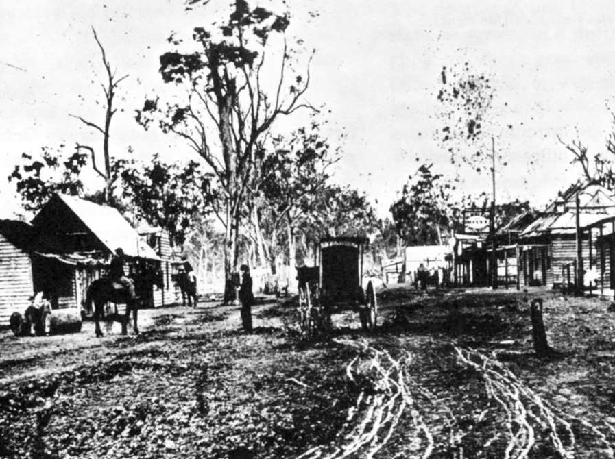 A photograph of Beaufoy Merlin's 'coating' caravan, taken near Gulgong, New South Wales, 1872